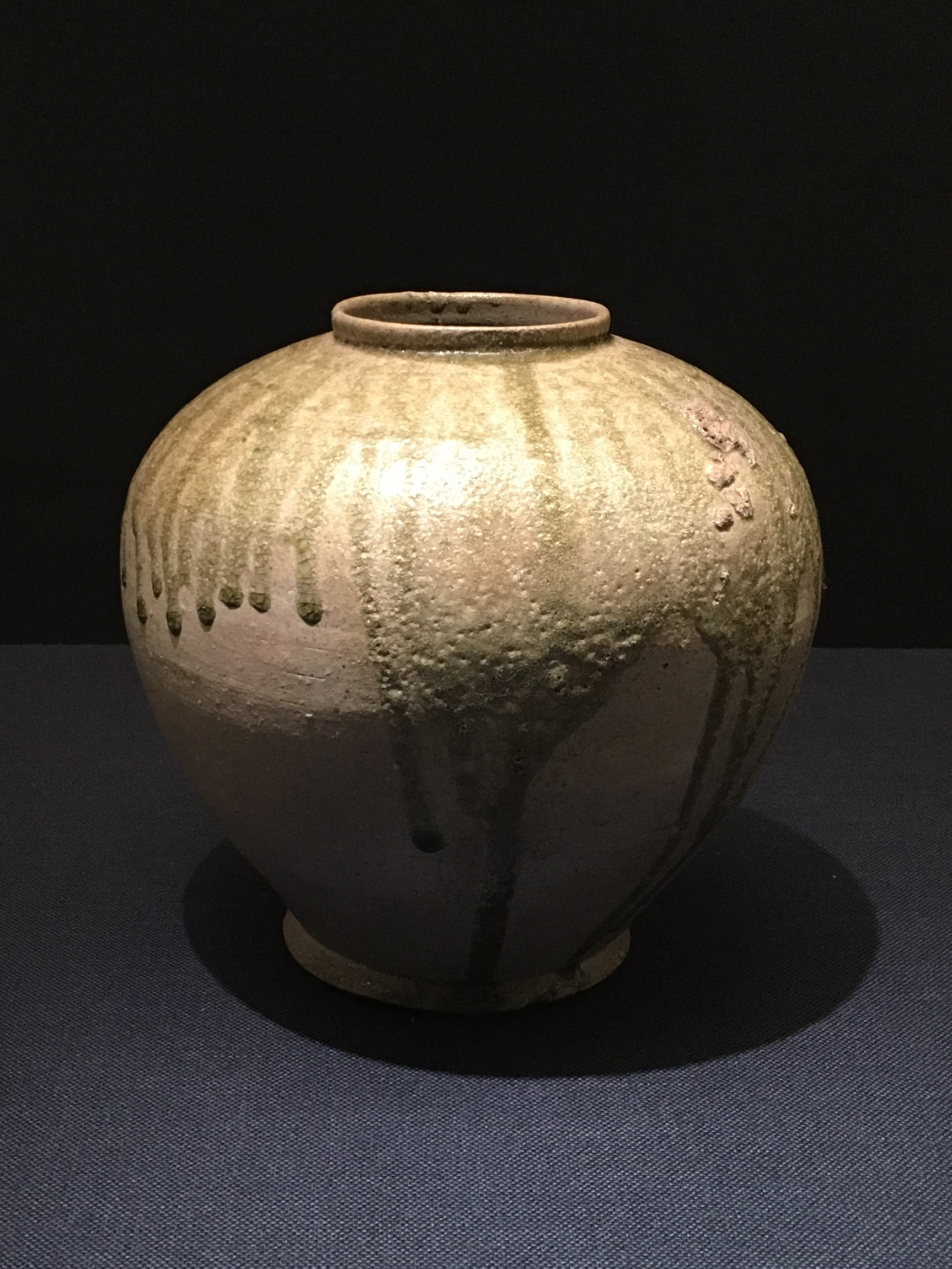 Jar with short neck, ash glaze. Sanage ware. Early Heian period, 9th century. Height: 22.6 cm Mouth Diameter: 9.4 cm Diameter: 24 cm Other: 12.7 cm (bottom diameter) Note: From Takayama, Gifu prefecture. Registered Important Cultural Property of Aichi prefecture.